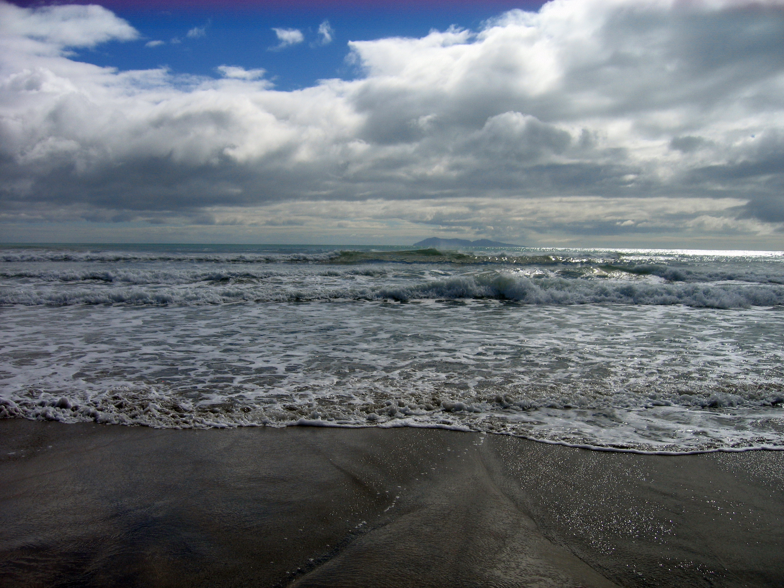 Waihi Beach, New Zealand